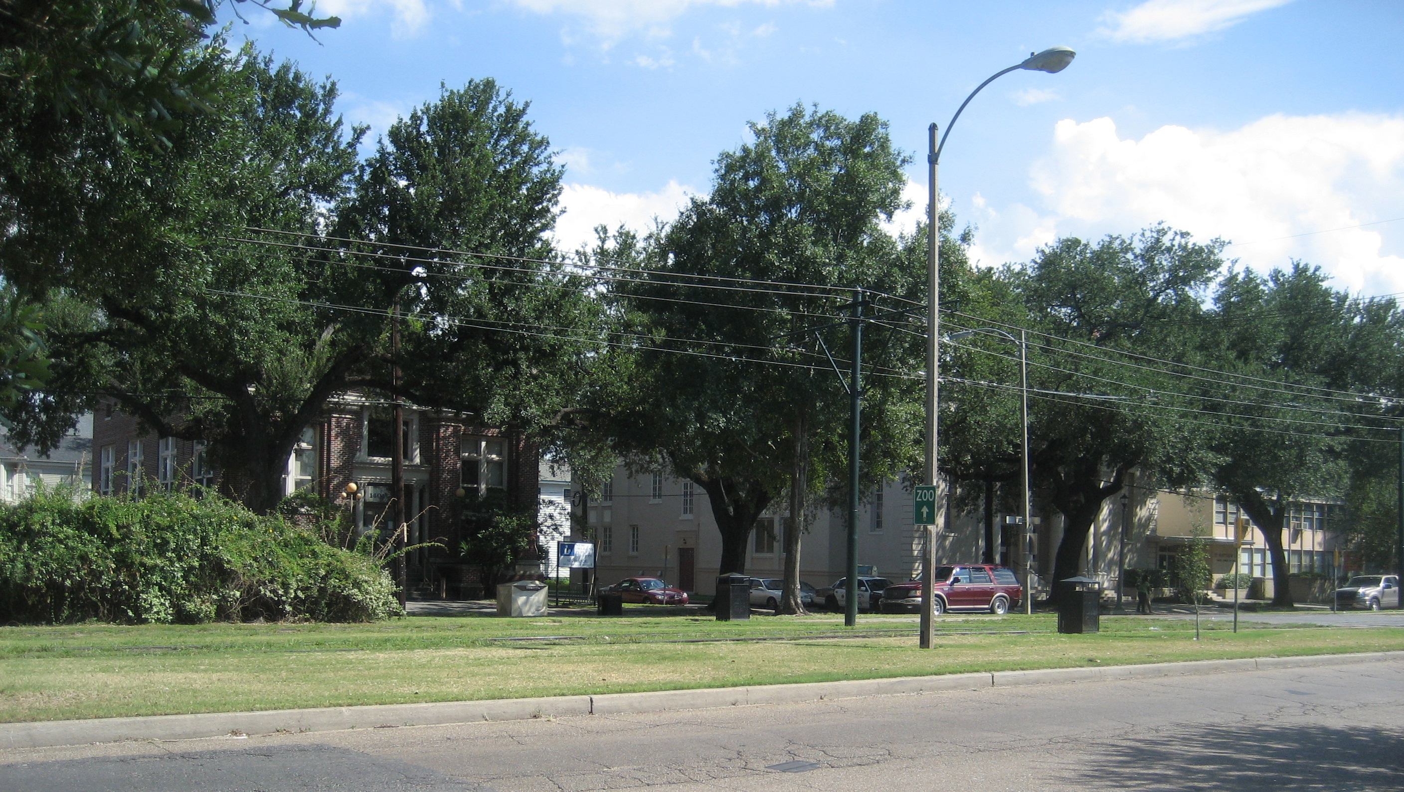 New Orleans: Carrollton Avenue, Old Carrollton neighborhood, with the Nix Branch of the New Orleans Public Library seen across the street.